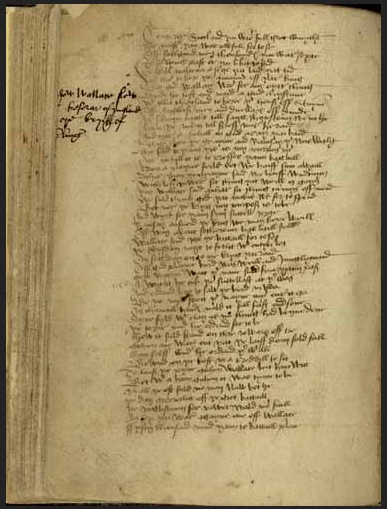 A page from the Ramsay manuscript text of "The Wallace". 1488. National Library of Scotland. Number Adv.MS. 19.2.2 (ii)